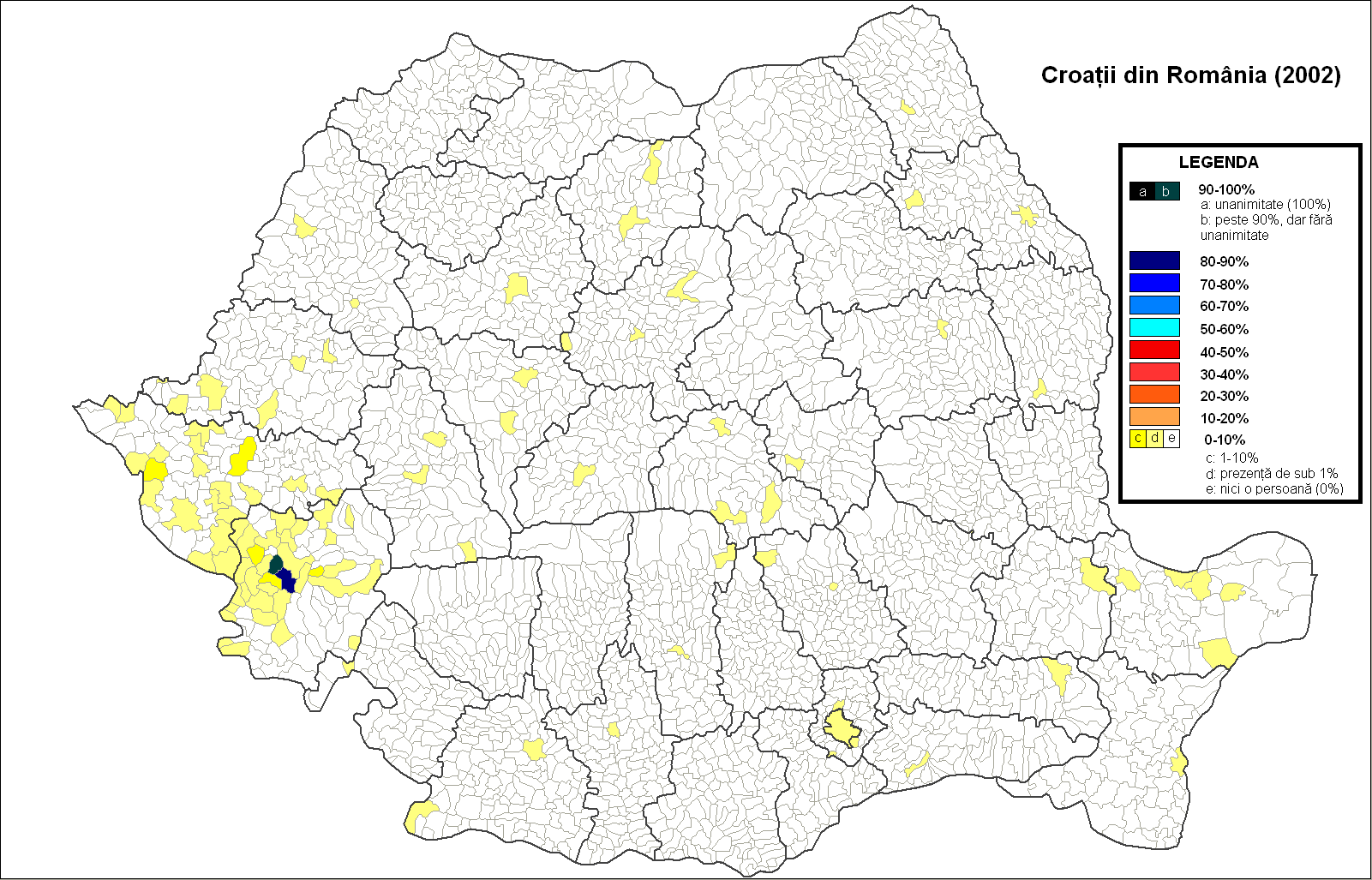 The distribution of the Croats in Romania (census 2002)